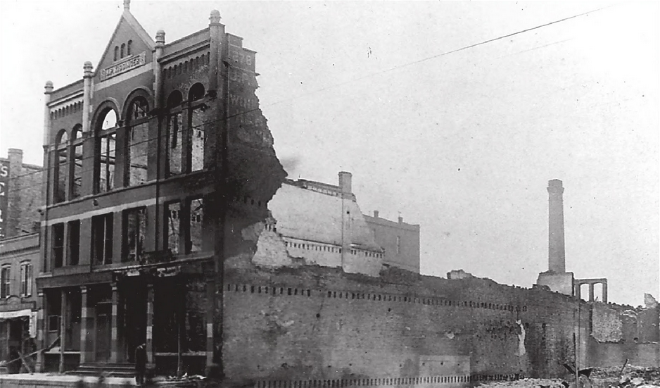 Aftermath of Milwaukees extensive Third Ward fire of 1892-10-28. Original caption: "Pictured here are the ruins of Kissinger's Liquors on Water Street, one of 443 buildings destroyed in the Third-Ward Fire on October 28, 1892. The conflagaration caused the greatest property loss in Milwaukee's history, engulfing 16 city blocks, along with 215 railroad cars. Three people, including a firefighter, were killed, and nineteen hundred people, mostly Irish immigrants, were left homeless. During reconstruction, Italians moved into the area, establishign grocery commission houses. "Commission Row" thrives as a trendy area, combining elements of past and present."